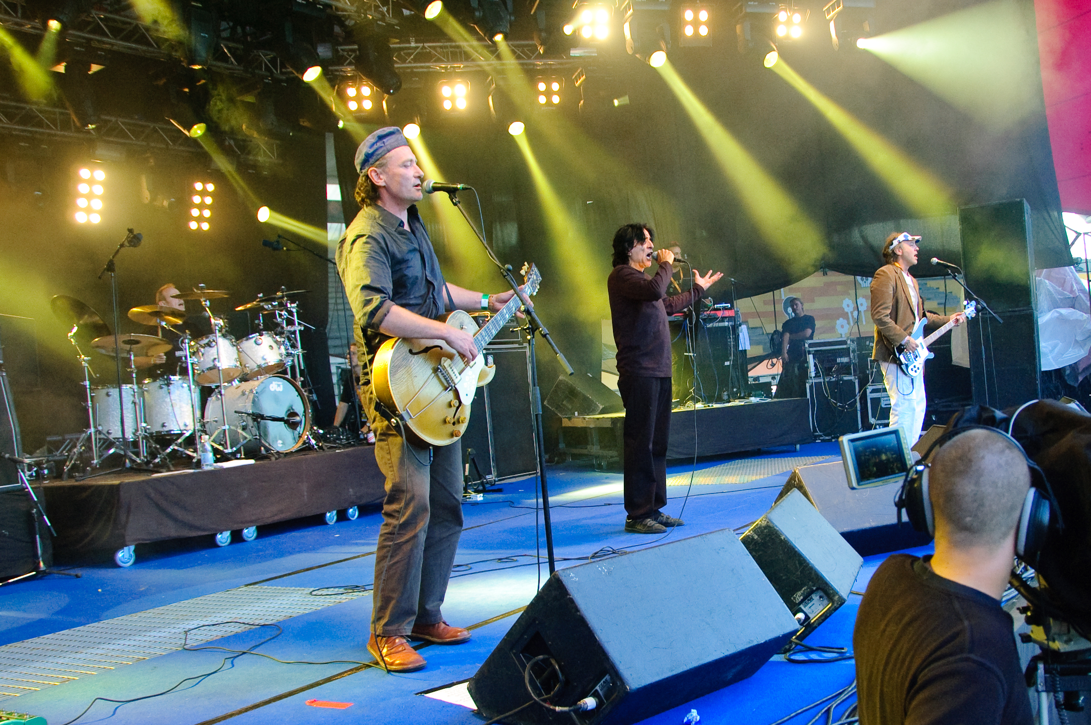 Killing Joke performing at the Ilosaarirock festival in Joensuu, Finland.